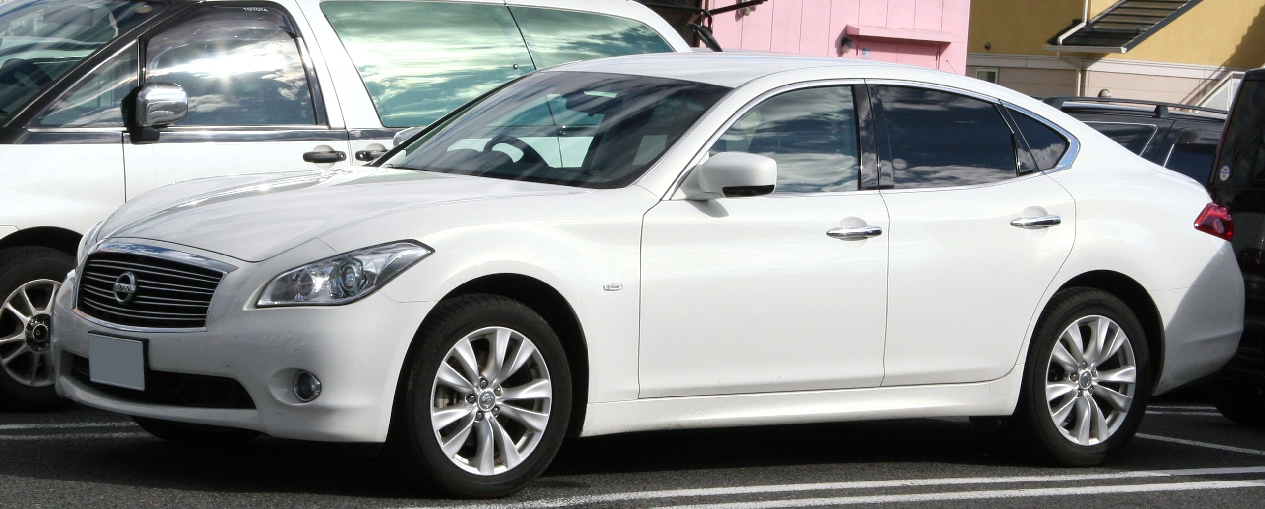 Nissan Fuga